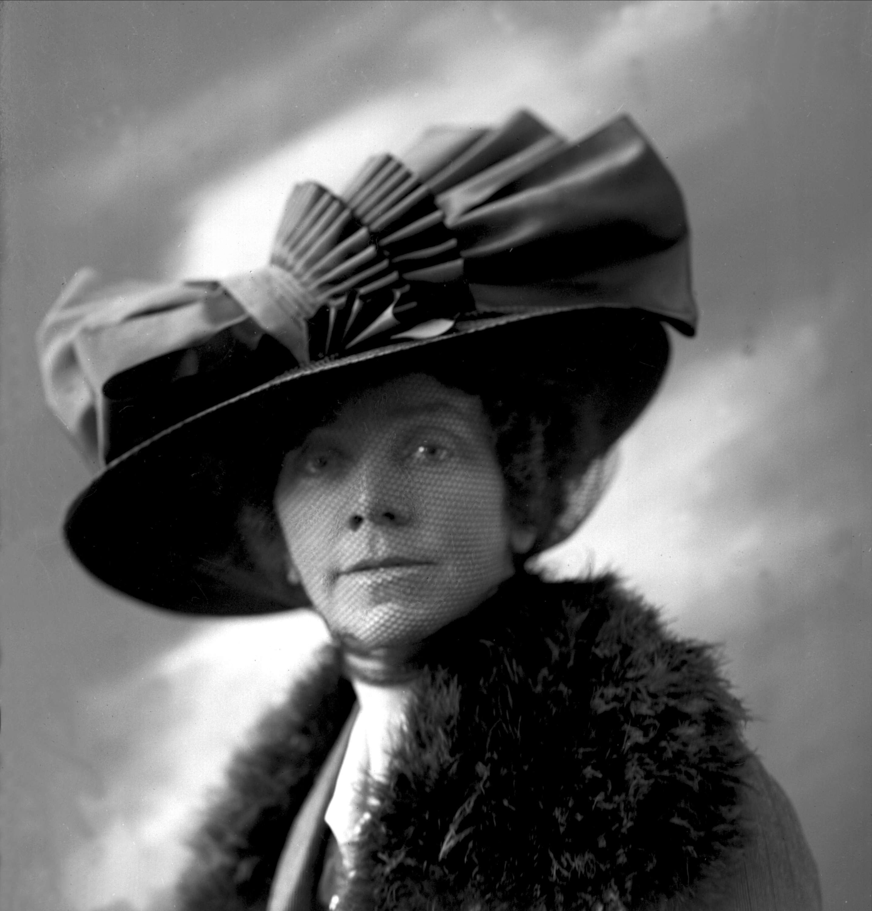 Norwegian sculptor and art journalist Kitty Wentzel (1868–1961)